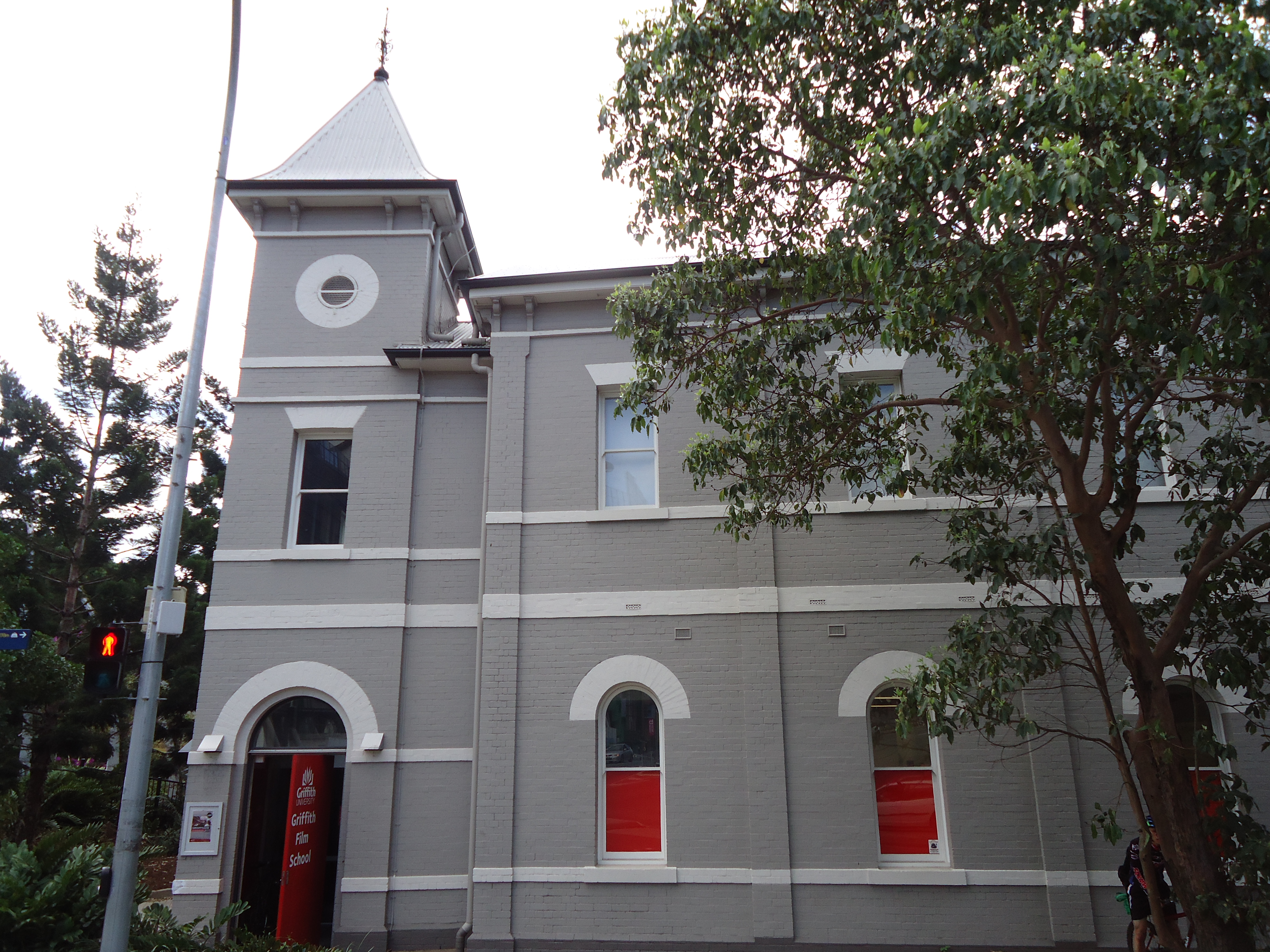 South Brisbane Library art gallery conversion by G. D. Payne (1911)